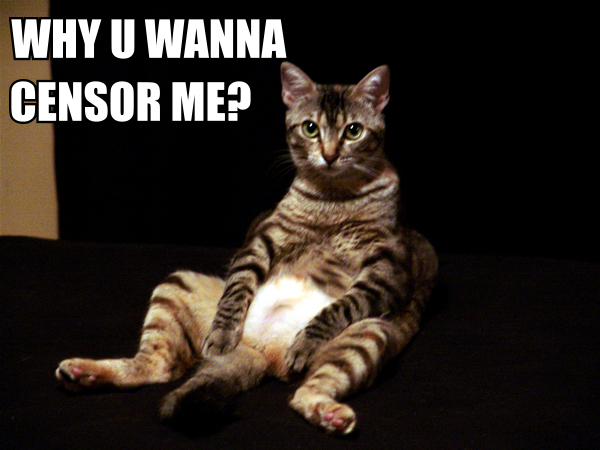 Lolcat doesn't want to be censored.